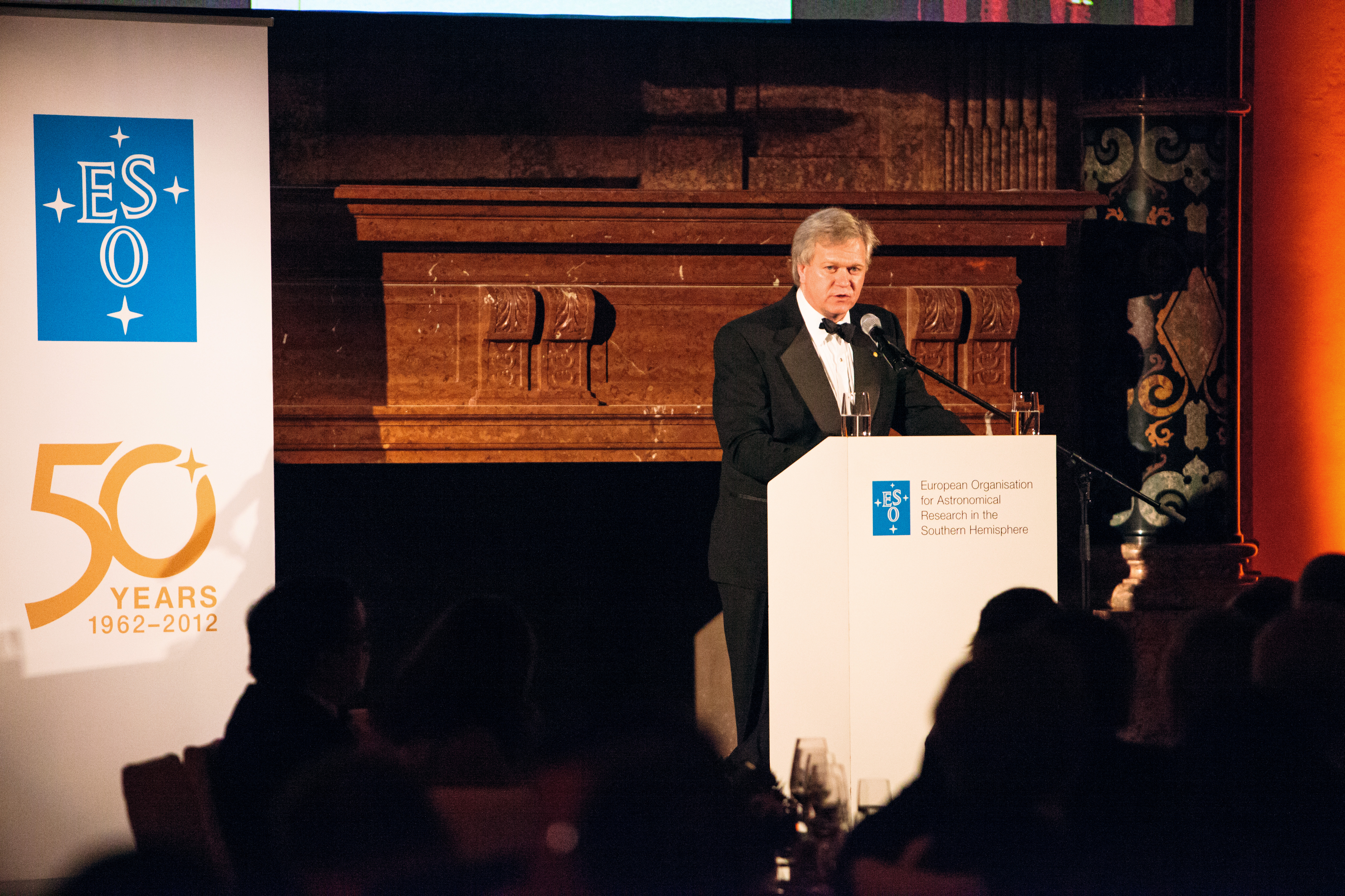 Professor Brian Schmidt, 2011 Physics Nobel Laureate, speaks at a gala event to mark the 50th anniversary of ESO. The event took place in the evening of 11 October 2012, in the Kaisersaal of the Munich Residenz in Germany.